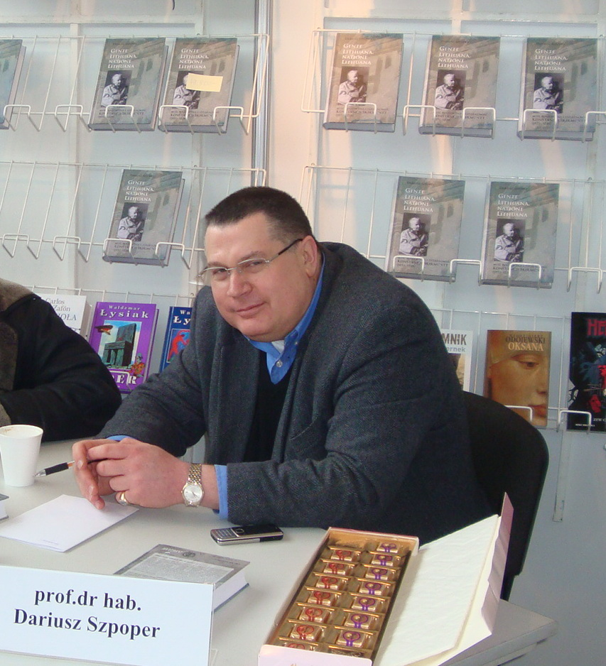 the polish historian Dariusz Szpoper in Minsk city (Belarus) on the presentation of his book "Gente Lithuana, Natione Lithuana. Myśl polityczna i działalność Konstancji Skirmuntt (1851-1934)". Photoed 13 February 2009 AD